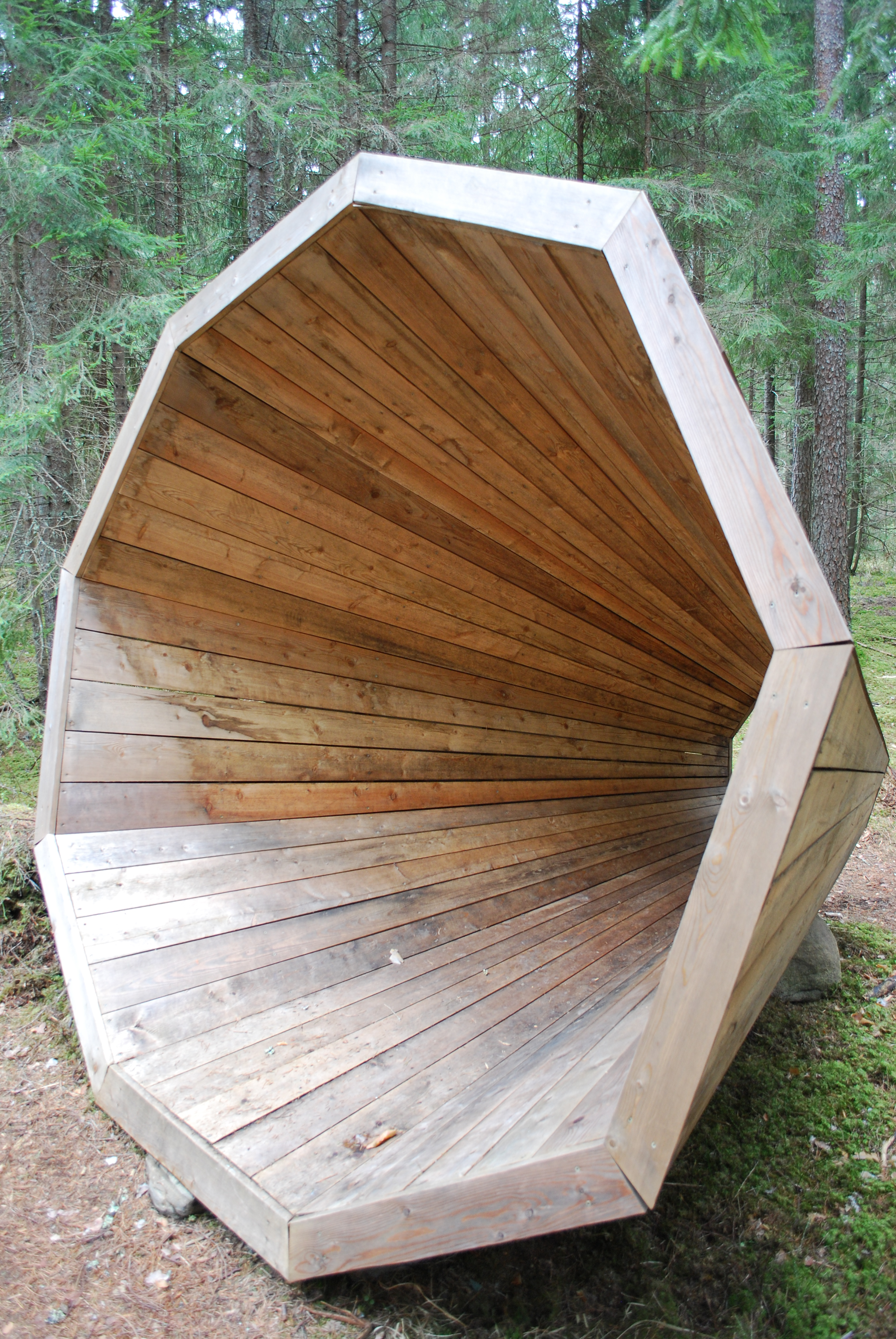 A forest library in Estonia for listening to the sounds of nature